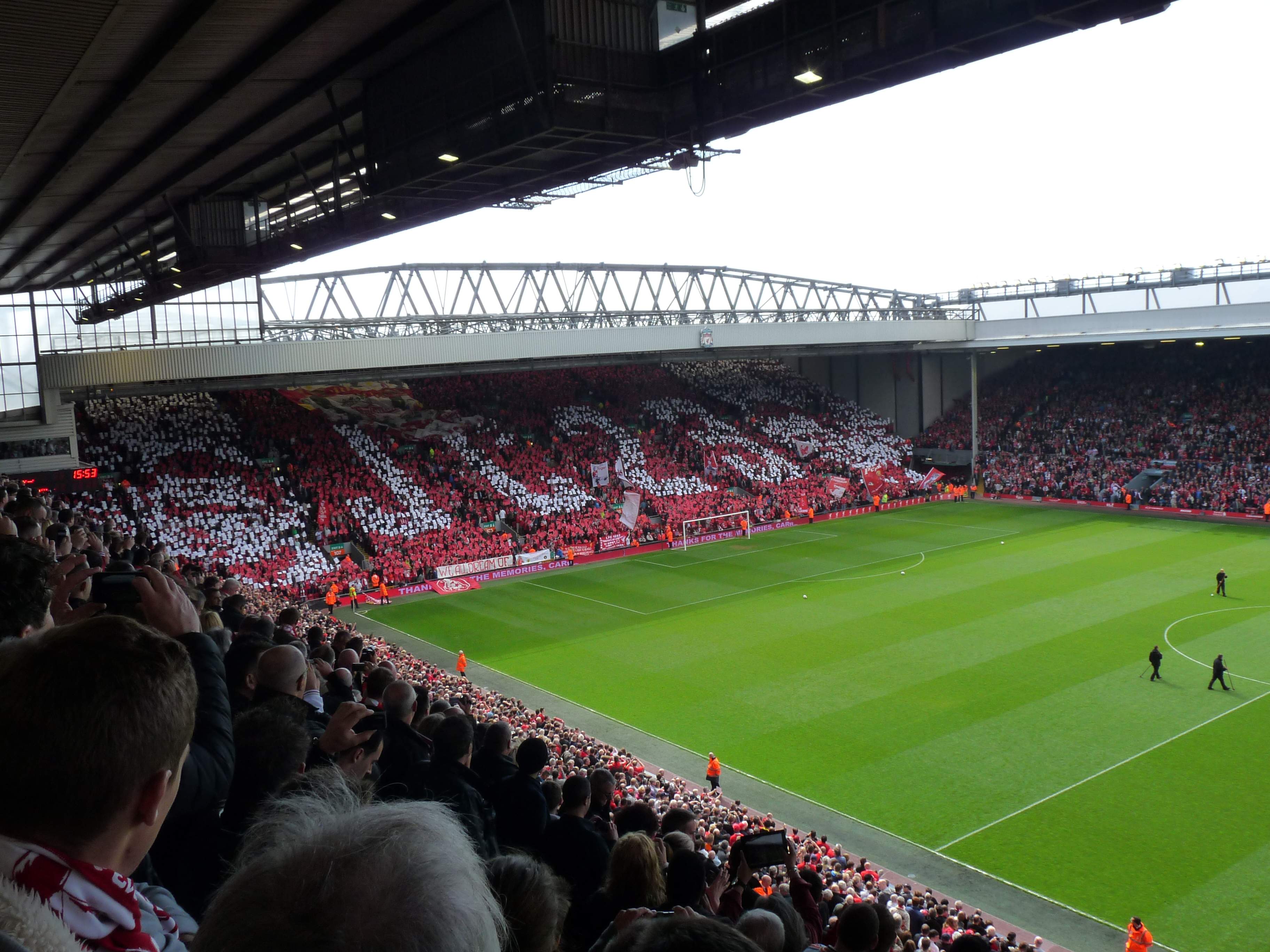 Kop Mosaic for Carragher on his last ever match for Liverpool F.C.